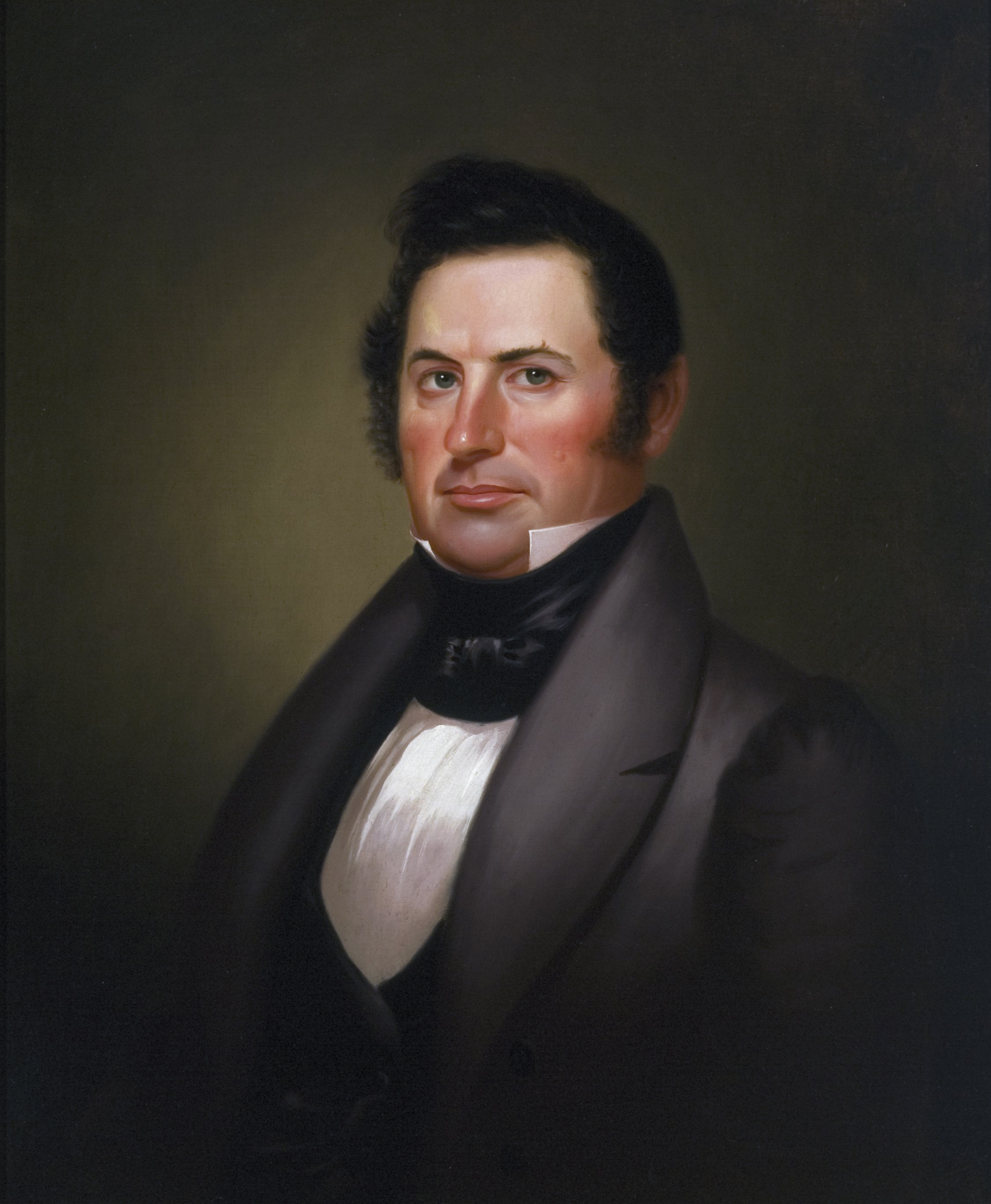 General Richard Gentry oil on canvas 69.9 x 57.2 cm 1837